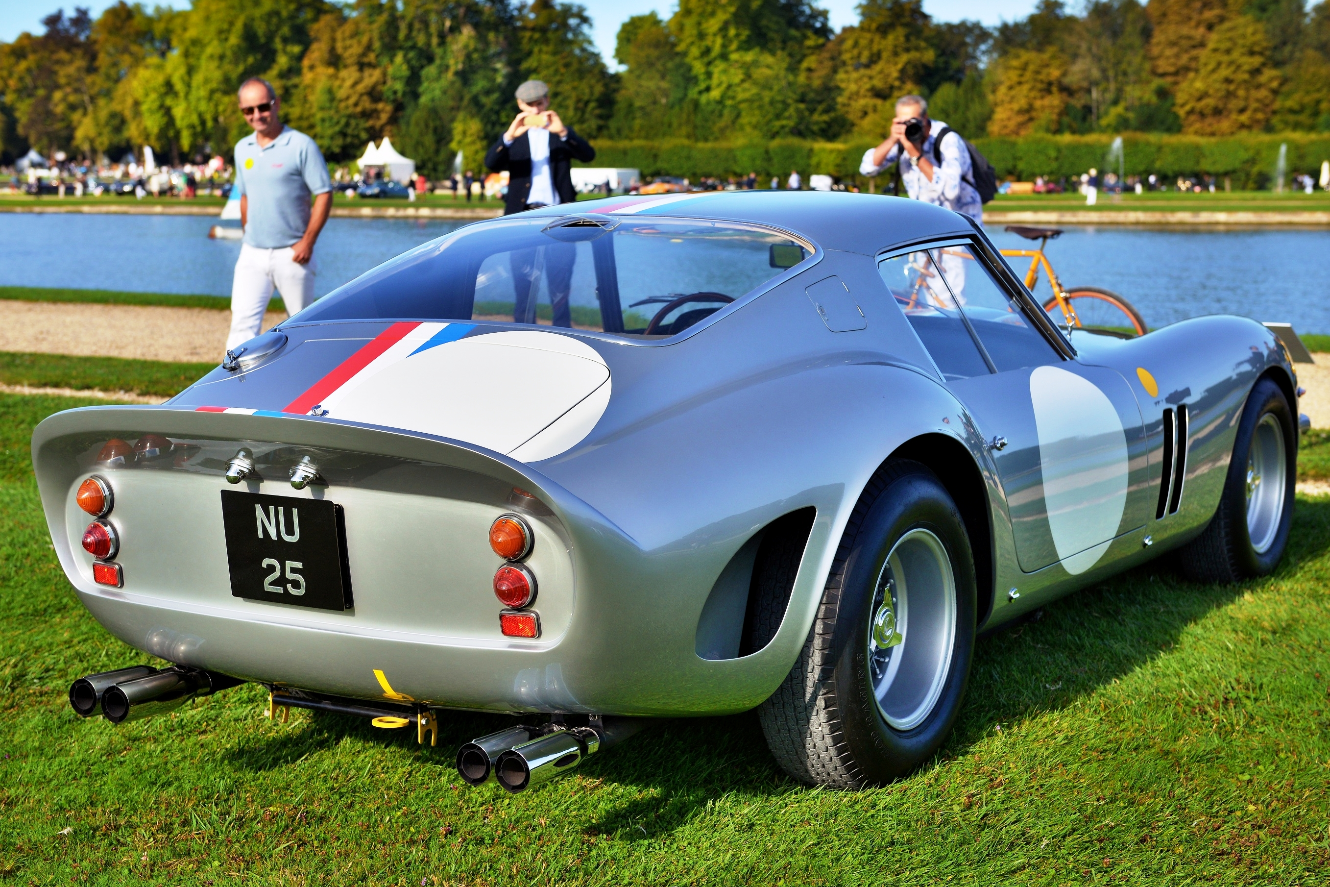 1962 Ferrari 250 GTO, chassis 4153GT. Photographed at the 2015 Chantilly Arts & Elegance Richard Mille